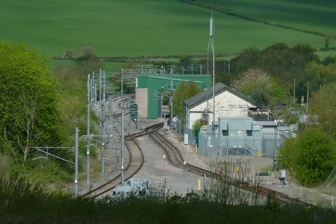 Old Dalby railway test centre The right hand track is equipped with 3rd and 4th conductor rails to enable testing of London Transport underground stock.